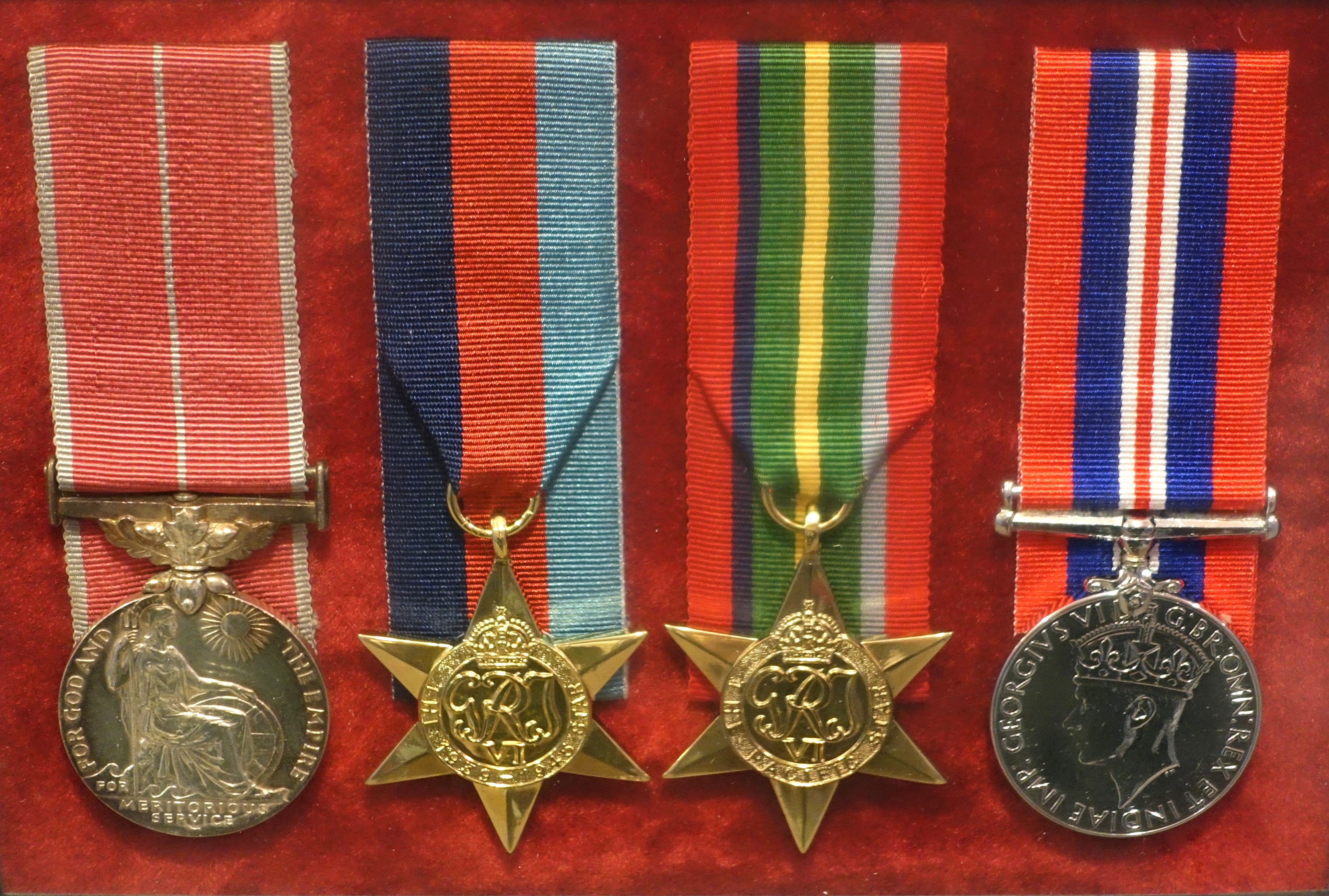 Medals exhibited in the Chinese Canadian Military Museum - Vancouver, Brisith Columbia, Canada.